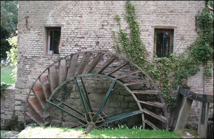 Querrieu : mill wheel on the Hallue river, restored in 2005